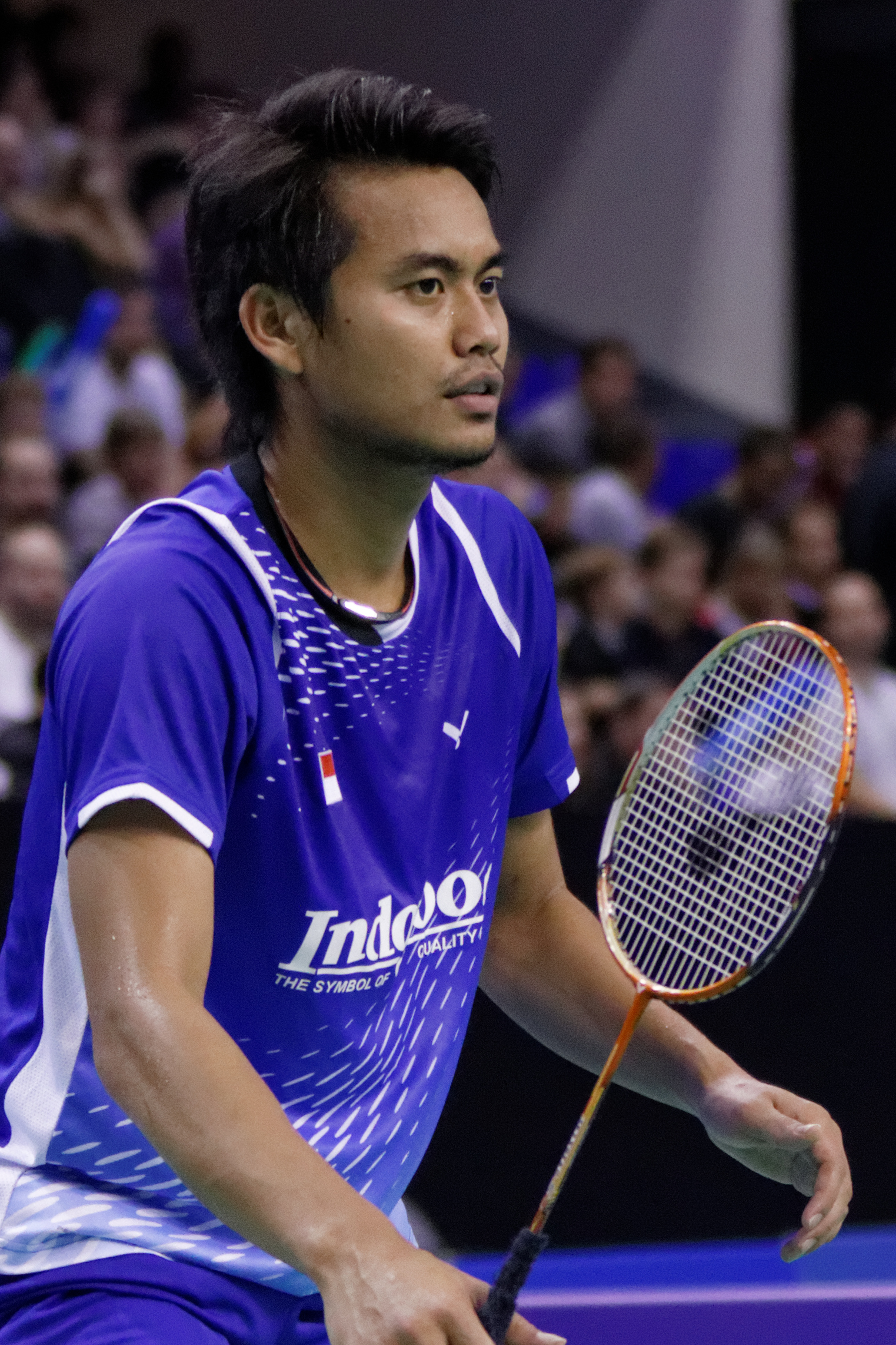 2013 French open. Mixed's doubles quarterfinal. Tontowi Ahmad - Liliyana Natsir vs Chris Adcock - Gabrielle White.